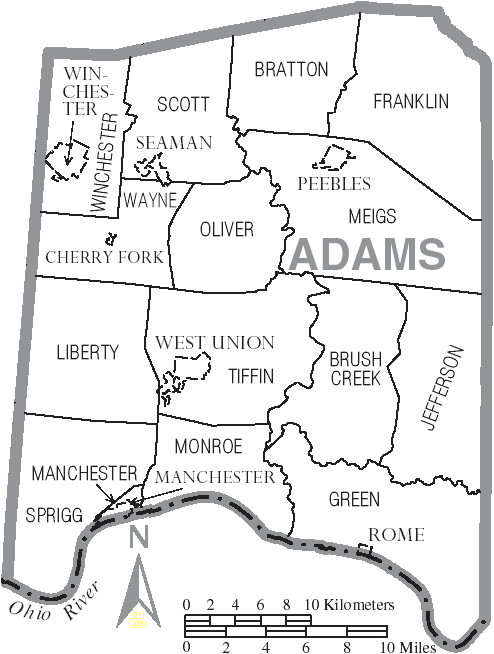 Map of Adams County, Ohio, United States with township and municipal boundaries